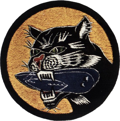 Insignia of the U.S. Navy Anti-Submarine Squadron 23 (VS-23) "Black Cats".